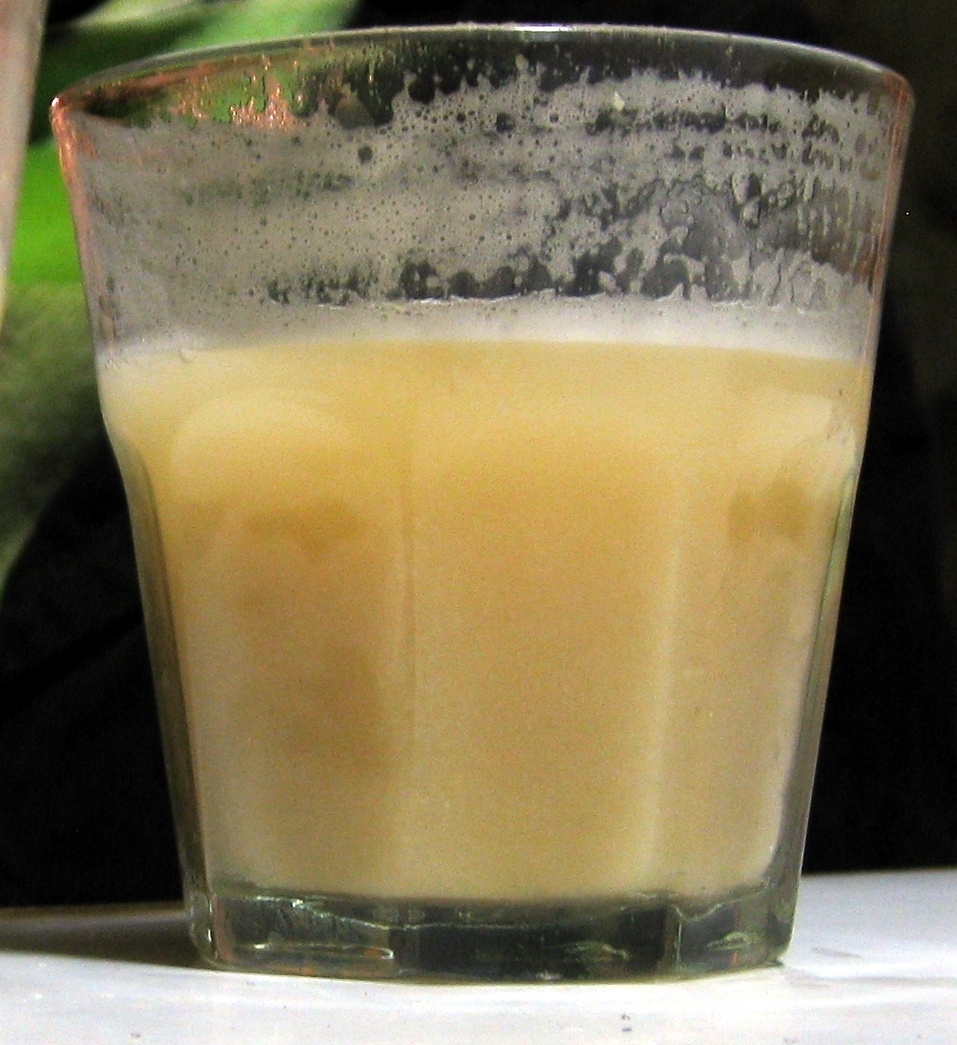 A glass of homebrewed chicha de jora from Ollantaytambo in Peru